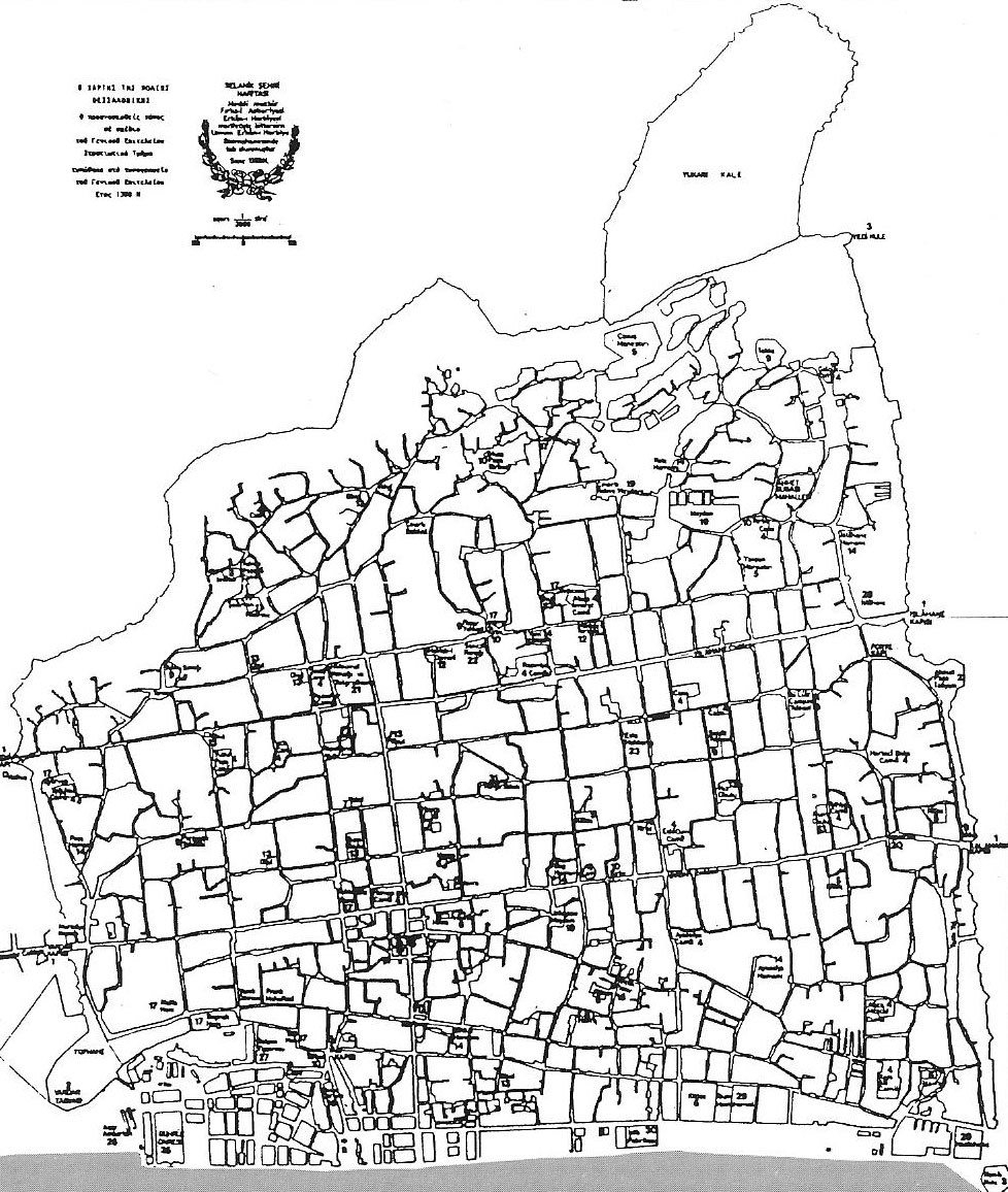 Street map of Thessaloniki in 1882/1883.